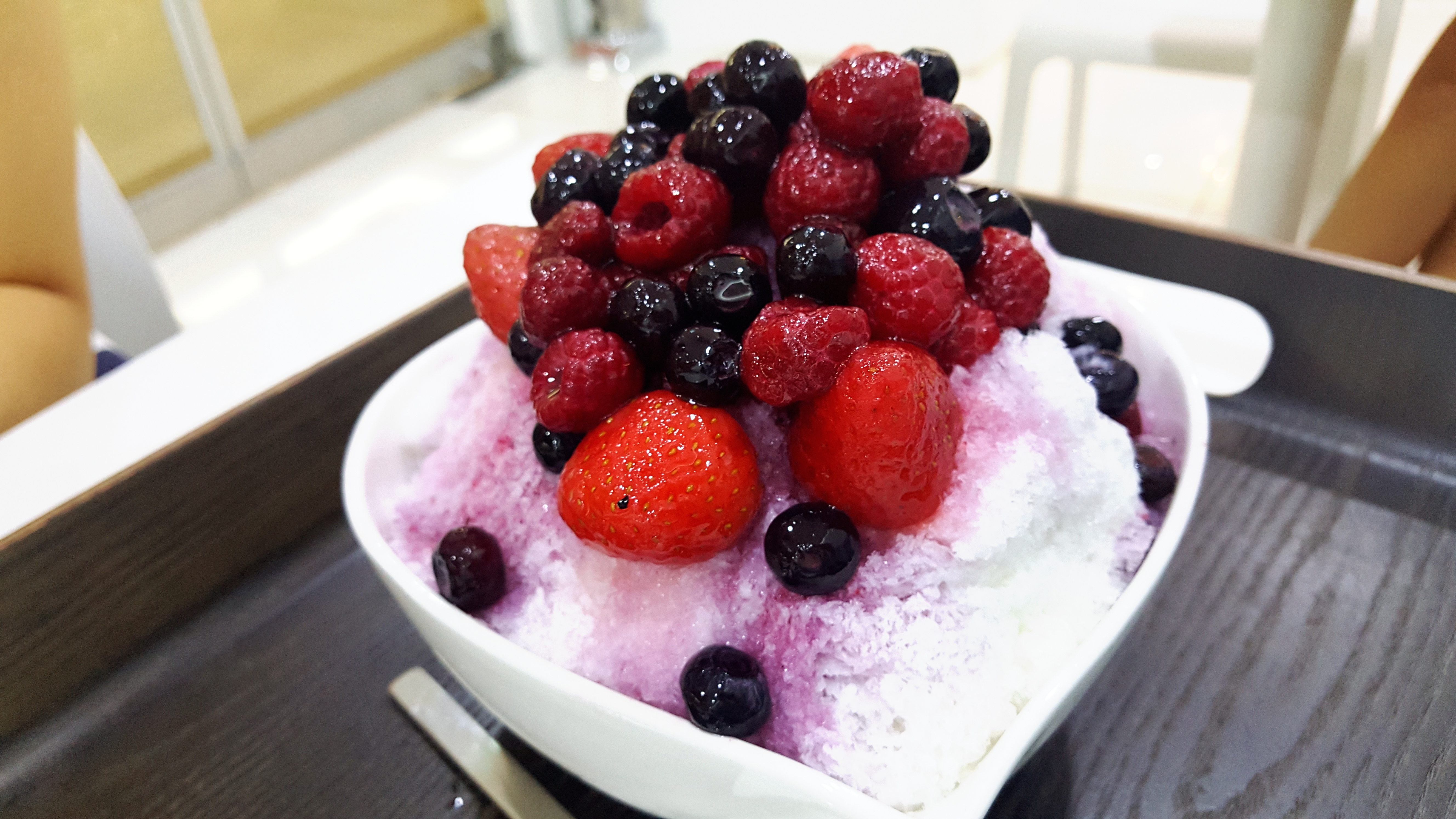 Bingsu with berries